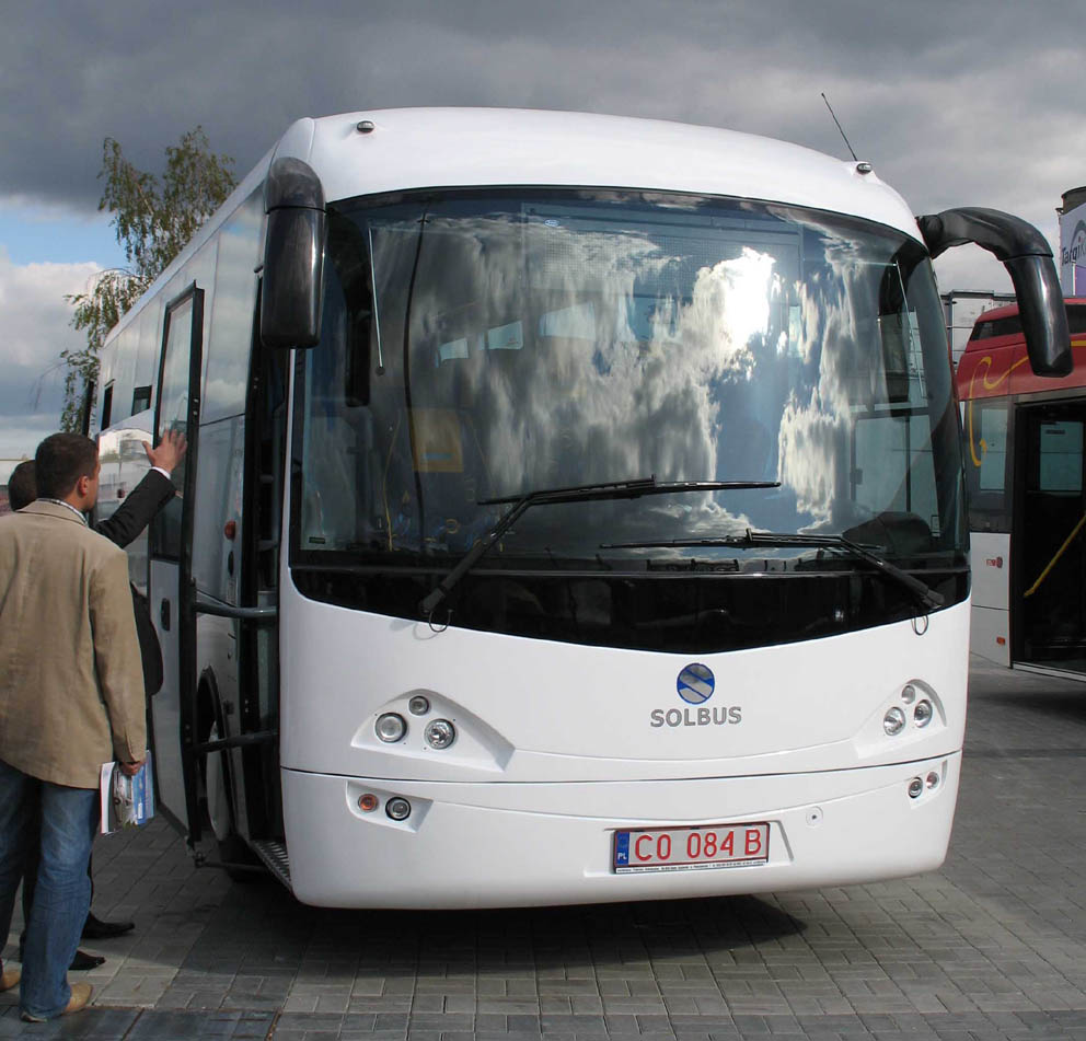 Solbus Soltour ST11/I bus in Kielce, Poland. Built 2007. Transexpo 2007. From 2008 belongs to PKS Olsztyn.